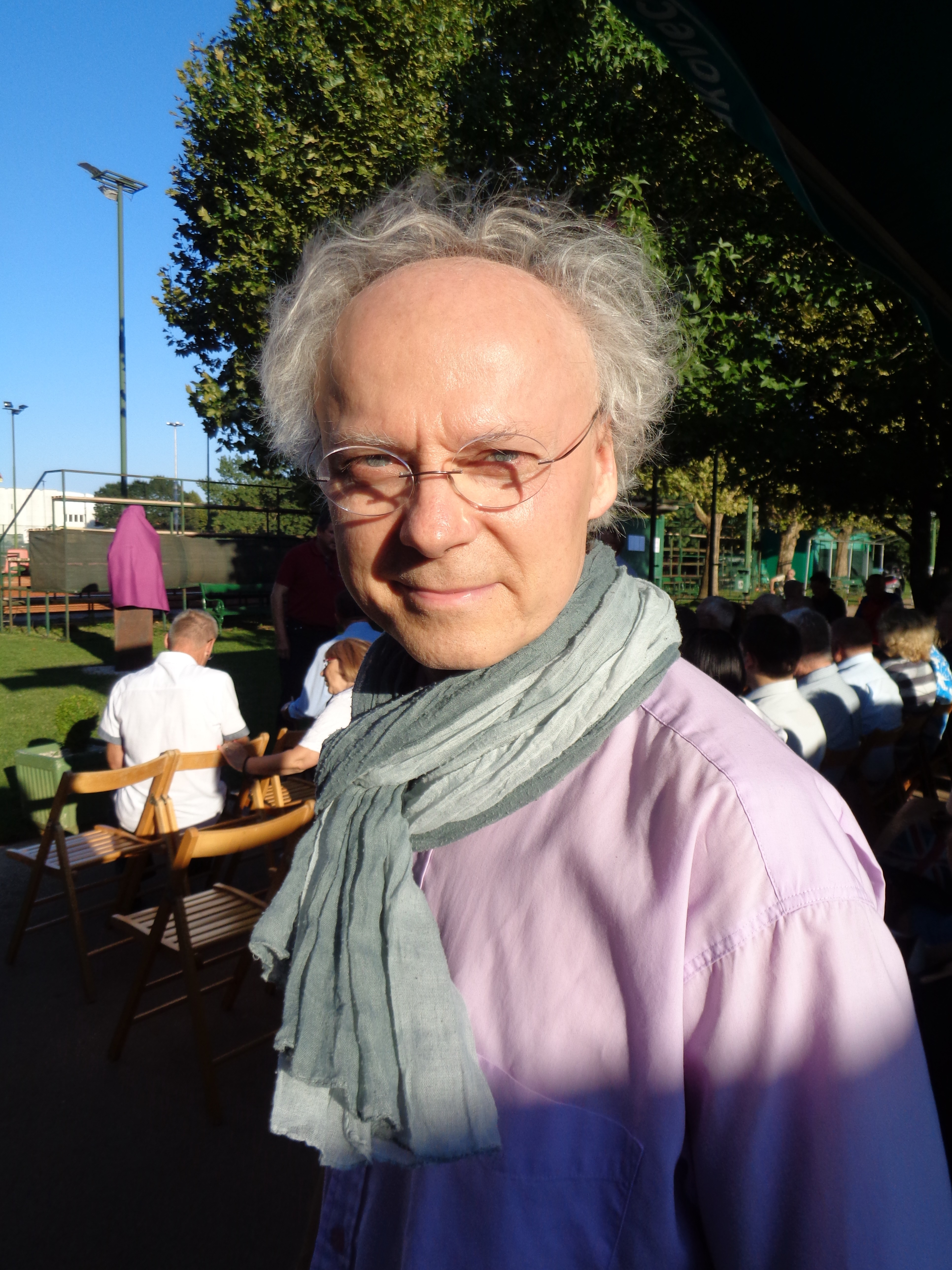 Boris Leiner - "Lajči" (b.1957 in Čakovec), Croatian rock-drummer and sculptor, member of "Azra", "Vještice" and other bands